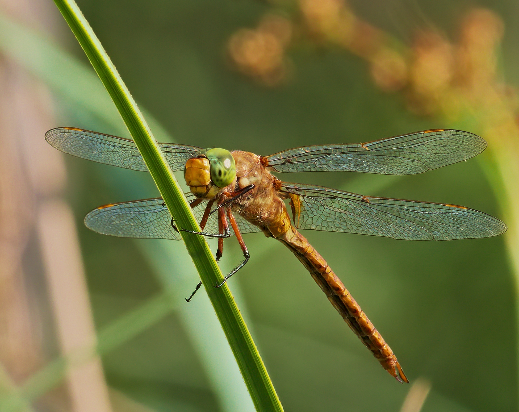 Green-eyed hawker - Aeshna isoceles, male. Taken on the Glubig-Melang-Fließ in Wendisch Rietz, Brandenburg, Germany.